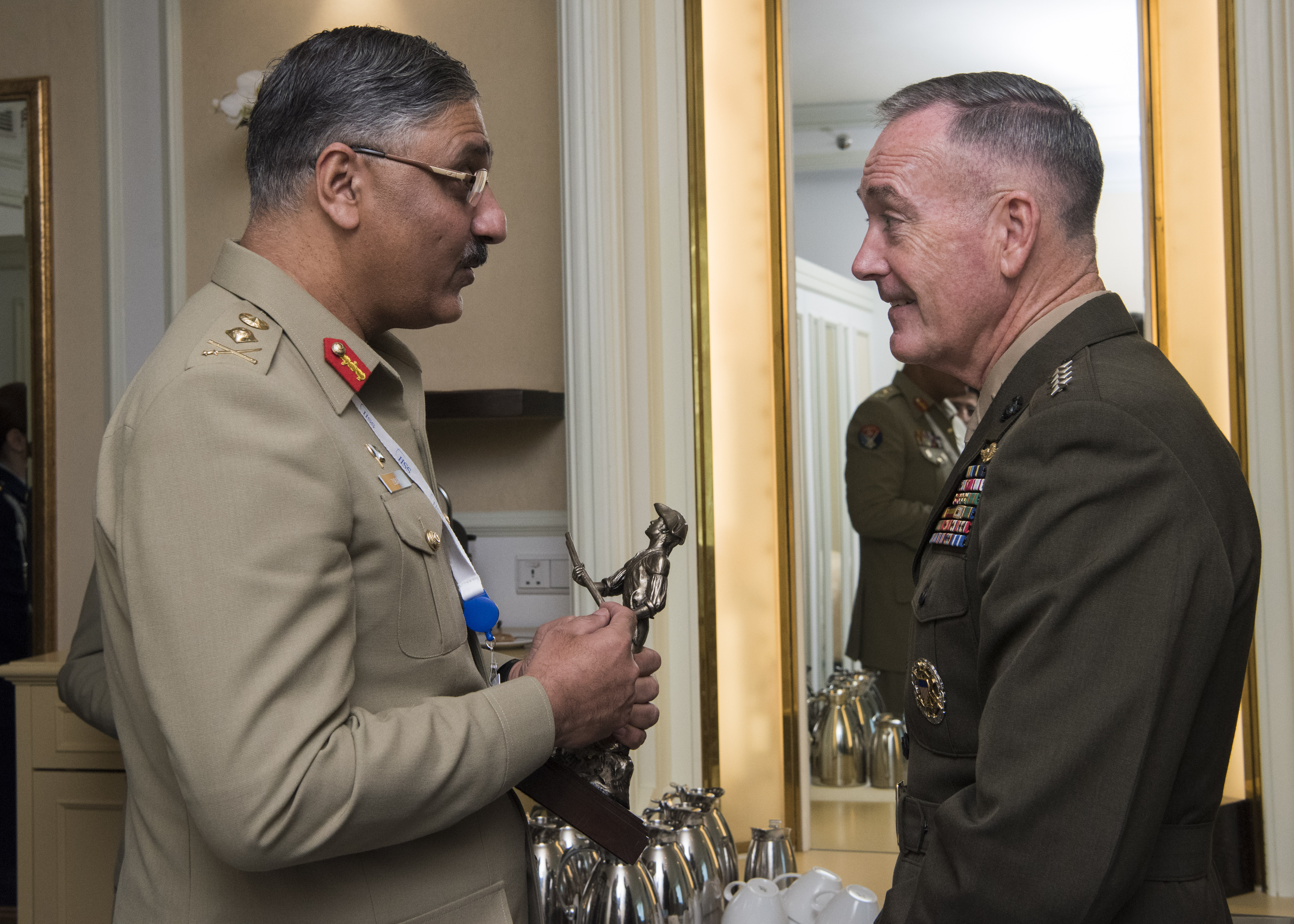 Marine Corps Gen. Joseph F. Dunford Jr., chairman of the Joint Chiefs of Staff, meets with the Pakistani Gen. Zubair Mehmood Hayat, Chairman of the Joint Chiefs of Staff Committee, during a bilateral session at the Shangri-La Dialogue, June 4, 2017. Dunford is in Singapore to attend the Shangri-La Dialogue, an Asia-focused defense summit, where he will meet with regional allies and counterparts to discuss common security issues. (Dept. of Defense photo by Navy Petty Officer 2nd Class Dominique A. Pineiro/Released)